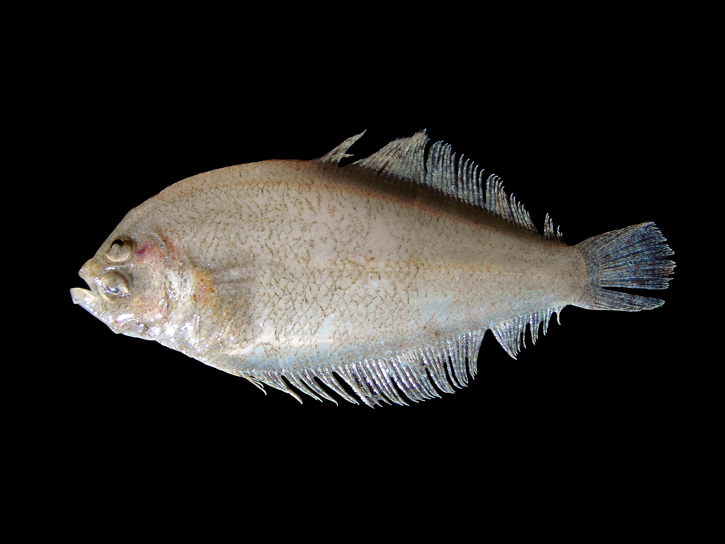 Scaldfish from the Southern North Sea (on board of RV Belgica).